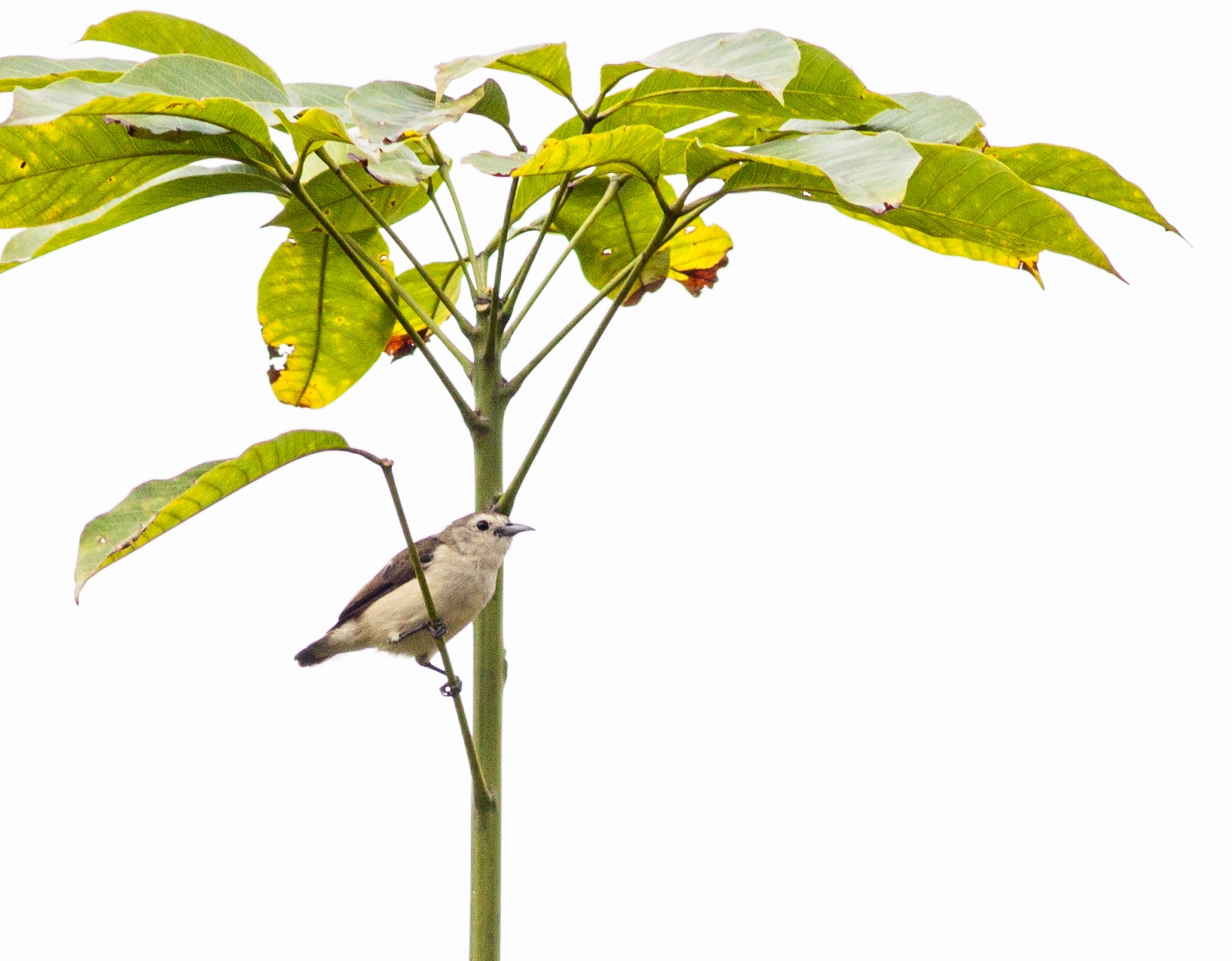 Nilgiri Flowerpecker Dicaeum concolor, Hosamata, Puttur, Karnataka, India